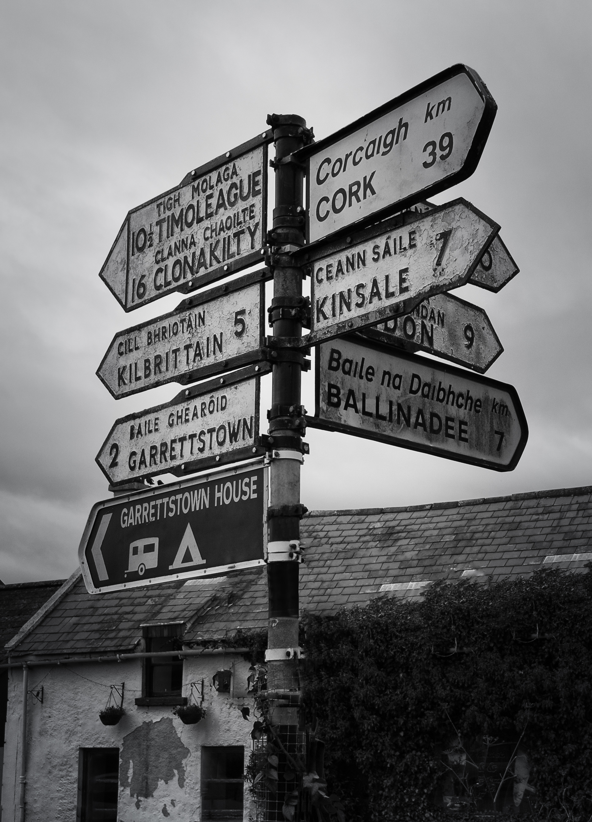 Central Sign in Ballinspittle